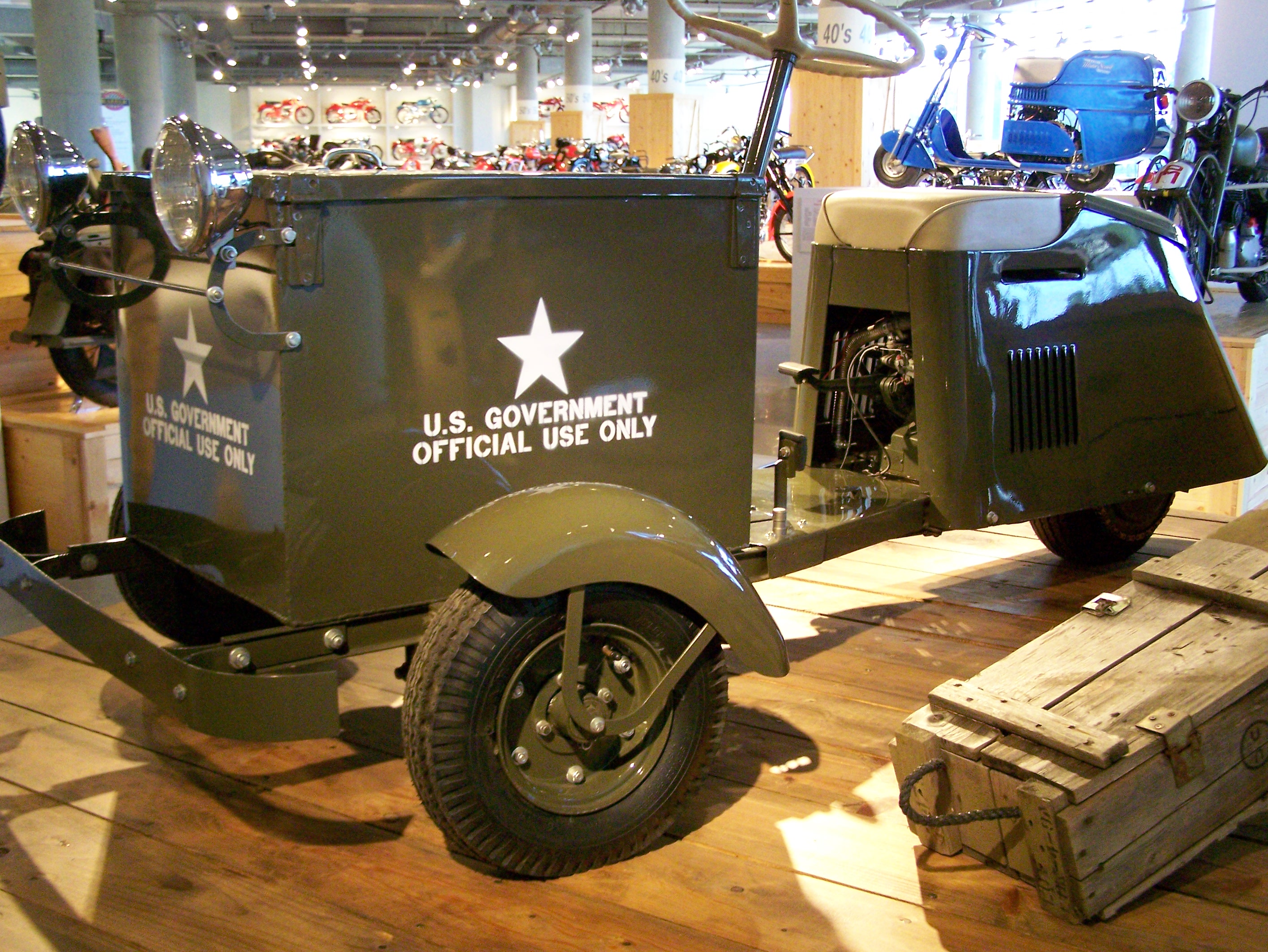 Barber Vintage Museum_548 U.S. Government Official Use Only Cushman Scooter